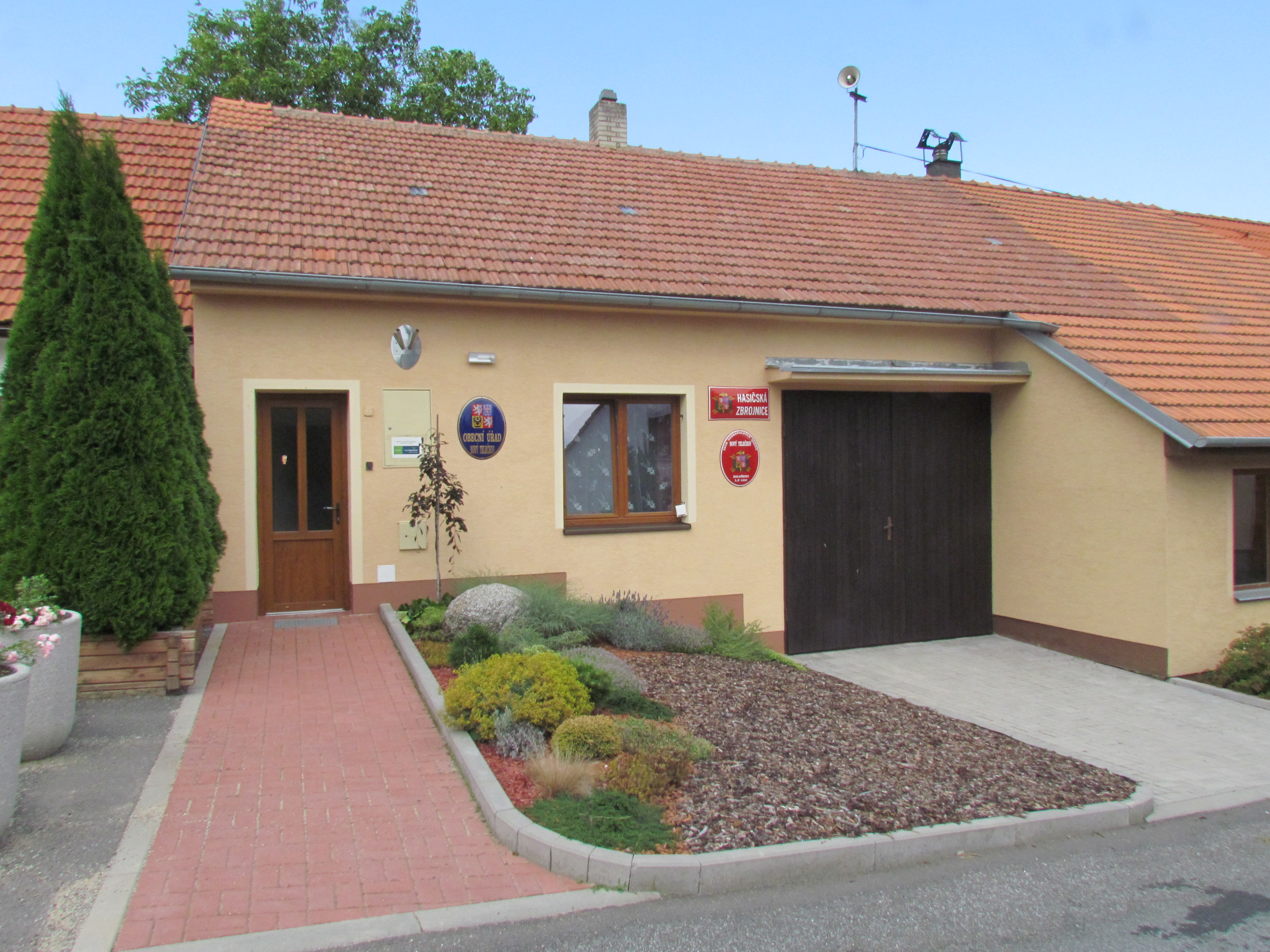 Municipal office in Nový Telečkov, Třebíč District.